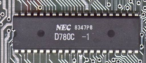 Sinclair 48K ZX Spectrum motherboard (Issue 3B. 1983) (Manufactured 1984)